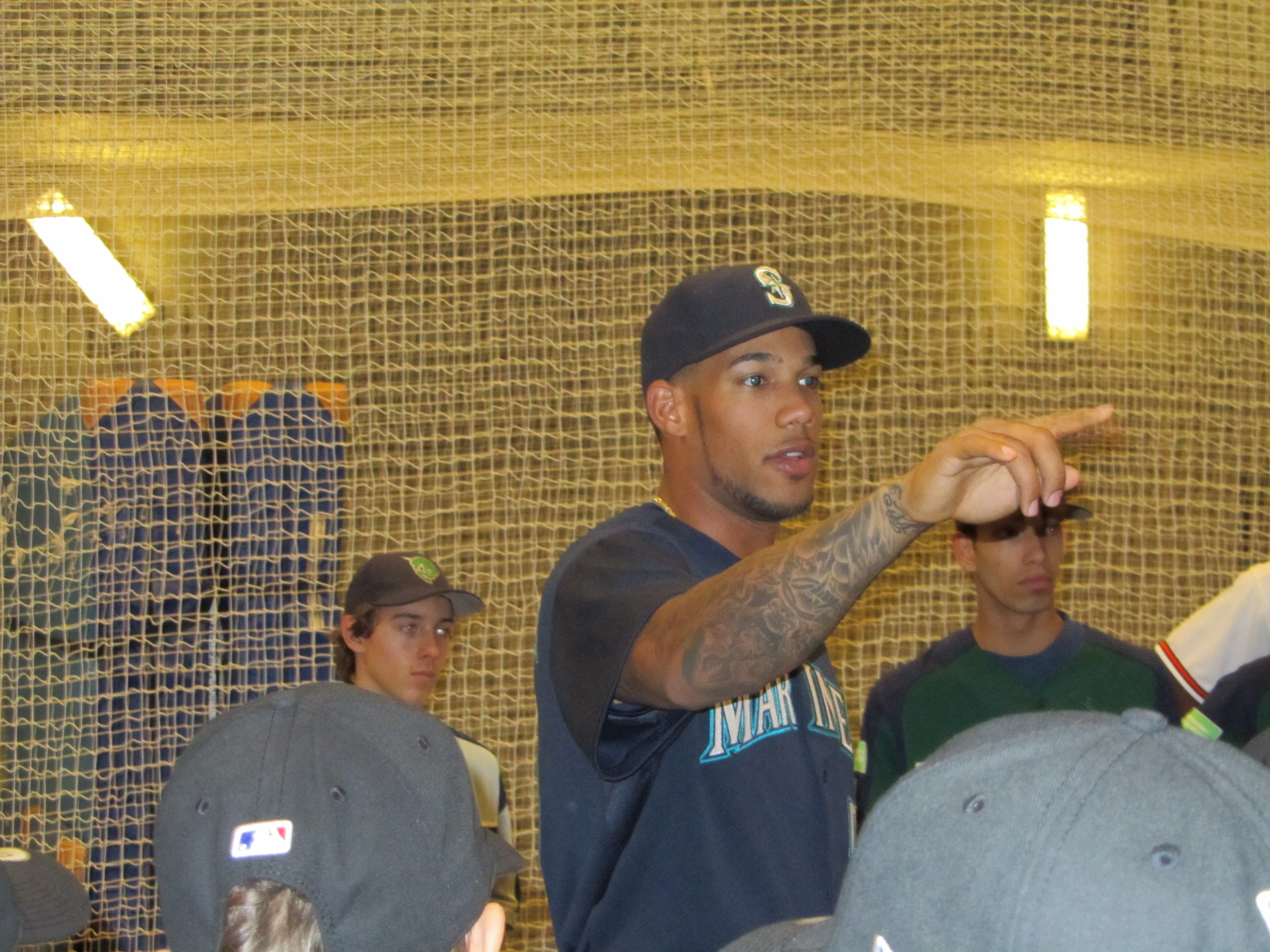 Baseball player Gregory Halman during Major League youth clinic in Rotterdam, The Netherlands